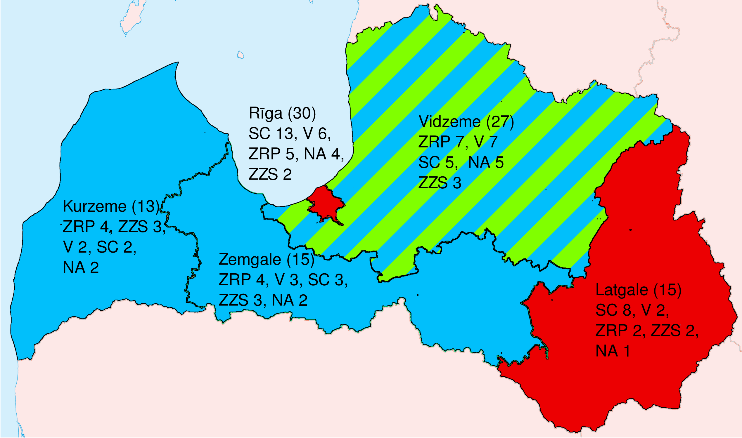 11th Saeima electoral district results according to based on the file Latvia elctoral districts blank.png by users Xil and Kikos